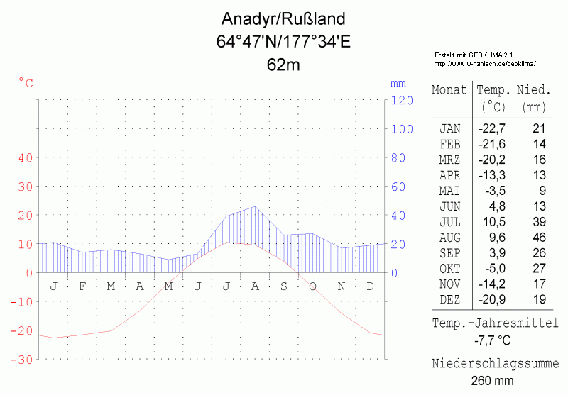 climate chart in the format by Walther and Lieth, metric, °Celsisus and millimeters, made with Geoklima 2.1